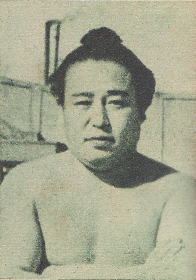 Onobori Mitsuhiro (Sumo wrestler from Japan. Maegashira.). Shooting earlier than 1955.